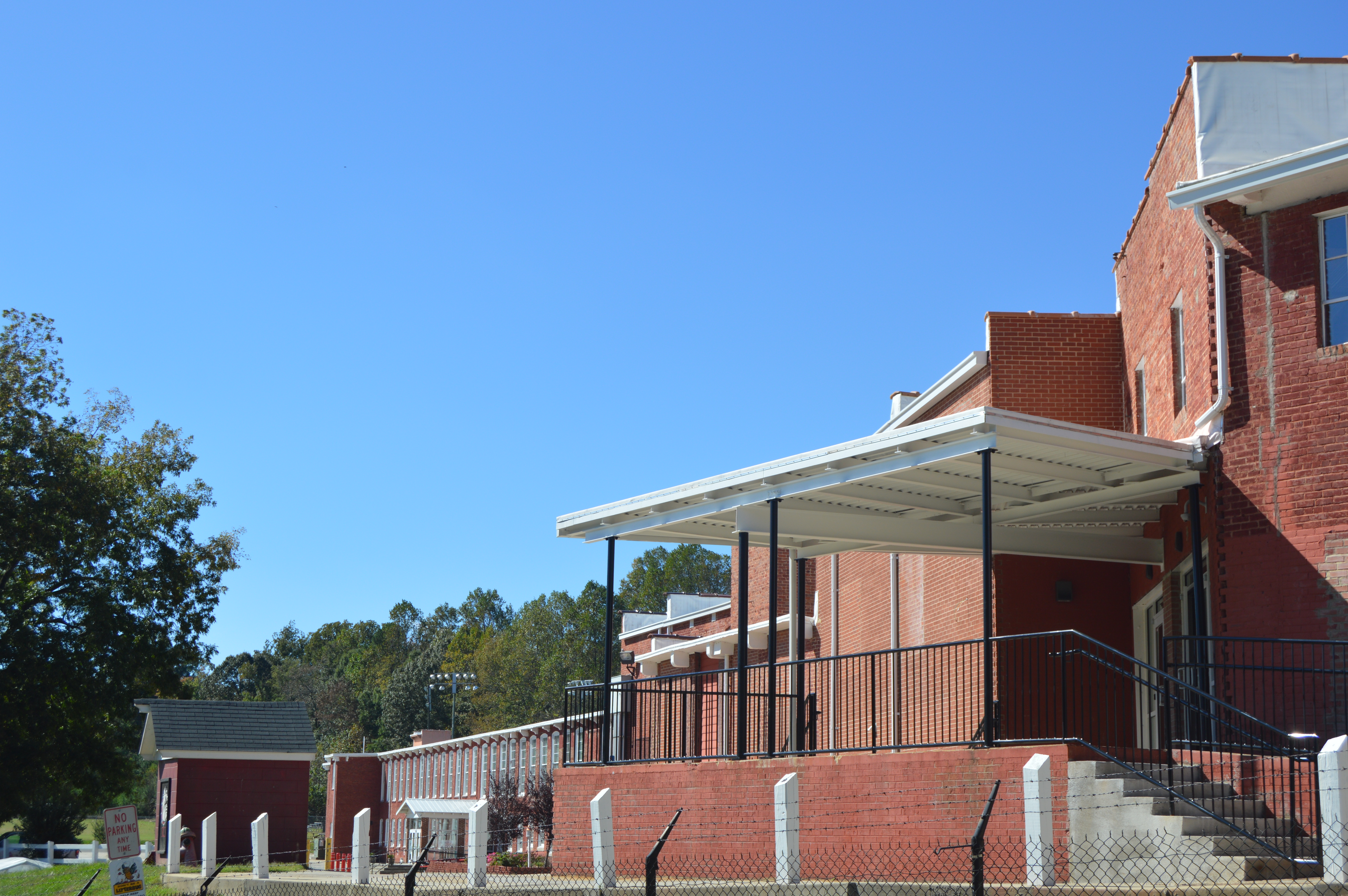 Southern front of the Roxboro Cotton Mill (now the Roxboro Community School), located at 115 Lake Drive in Roxboro, North Carolina, United States. Built in 1899, it is listed on the National Register of Historic Places.